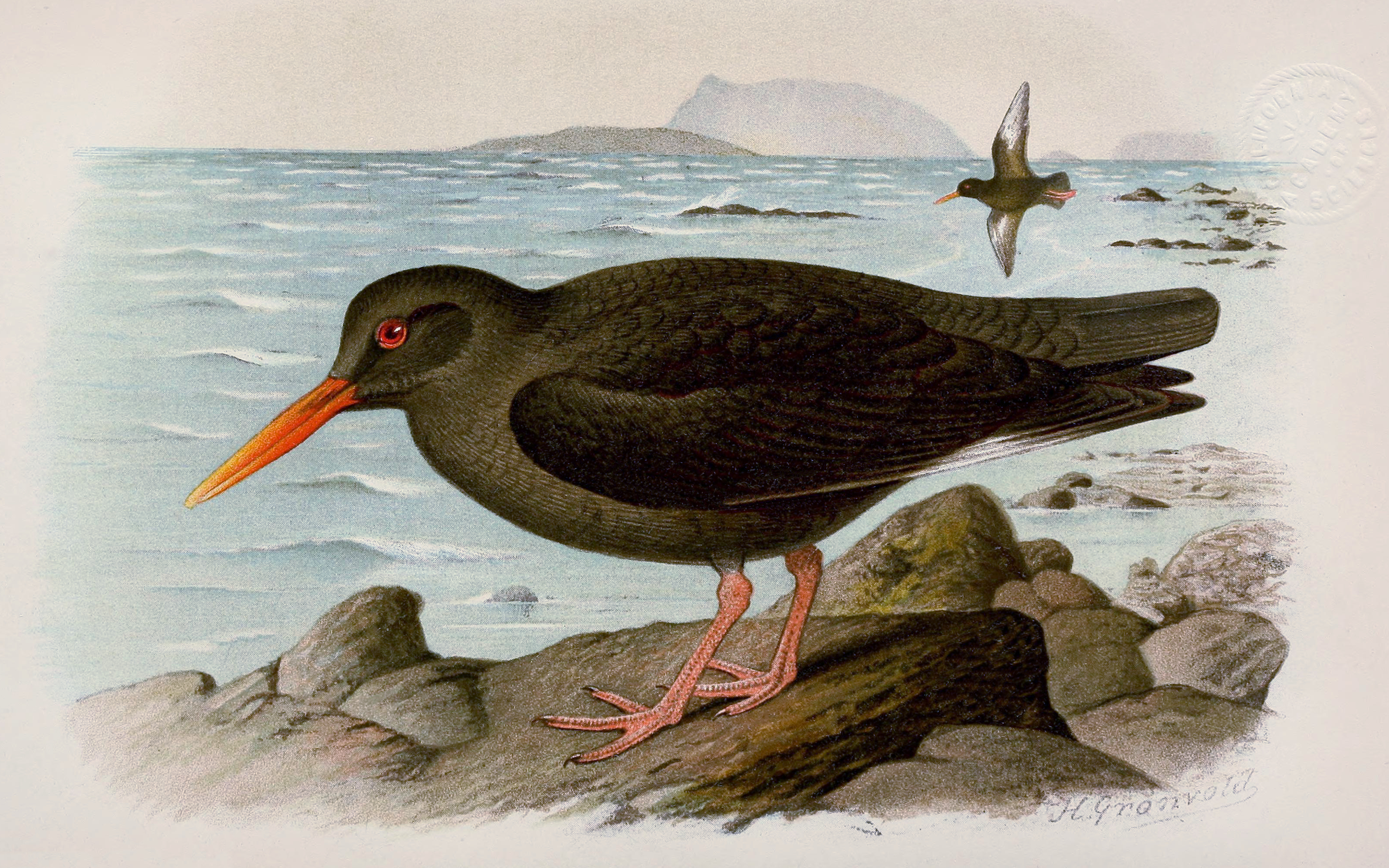 From An Ornithological Expedition to the Eastern Canary Islands - Part I THE IBIS, QUARTERLY JOURNAL OF ORNITHOLOGY. VOL. II. Tenth Series 1914.